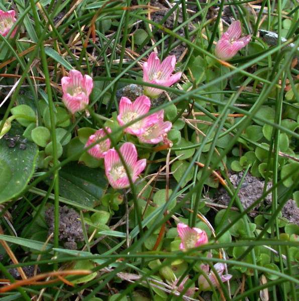 Anagallis tenella, from a bog in Ireland (West Cork).